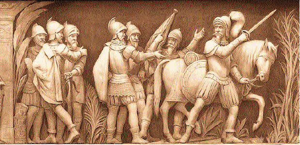 "Pizarro Going to Peru" - The Spanish conqueror of Peru, Francisco Pizarro, leading his horse, pushes through the jungle searching for El Dorado, the mythical land of gold. Pizarro eventually captured the Inca capital, Cuzco.